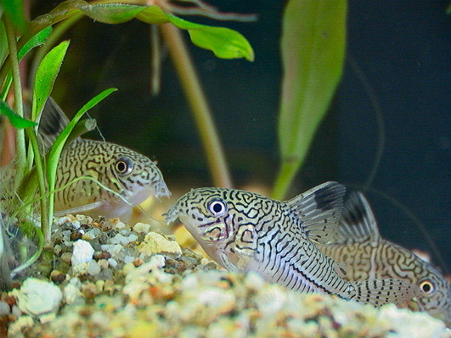 Corydoras trilineatus